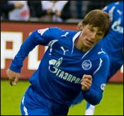 Andrei Arshavin, Russian footballer.